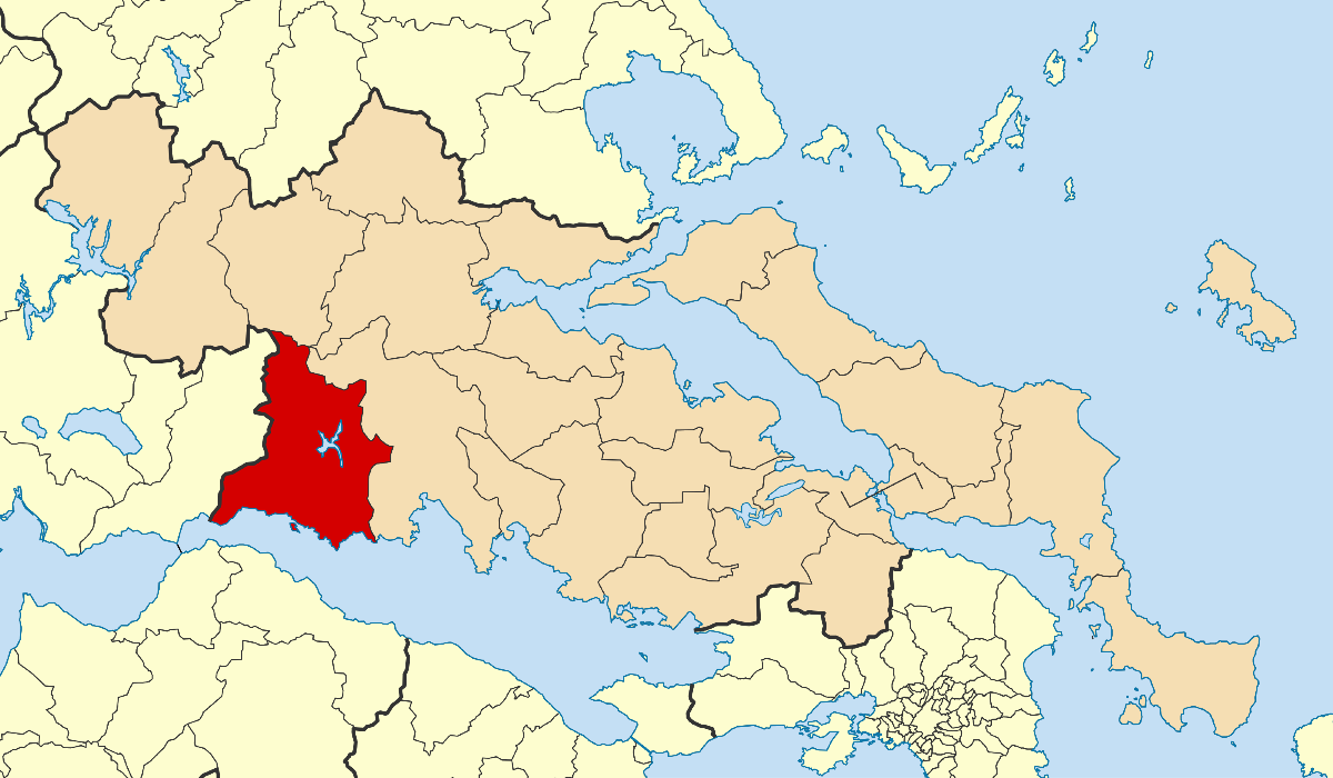 Locator map for Dorida municipality in Greek region Central Greece (2011)